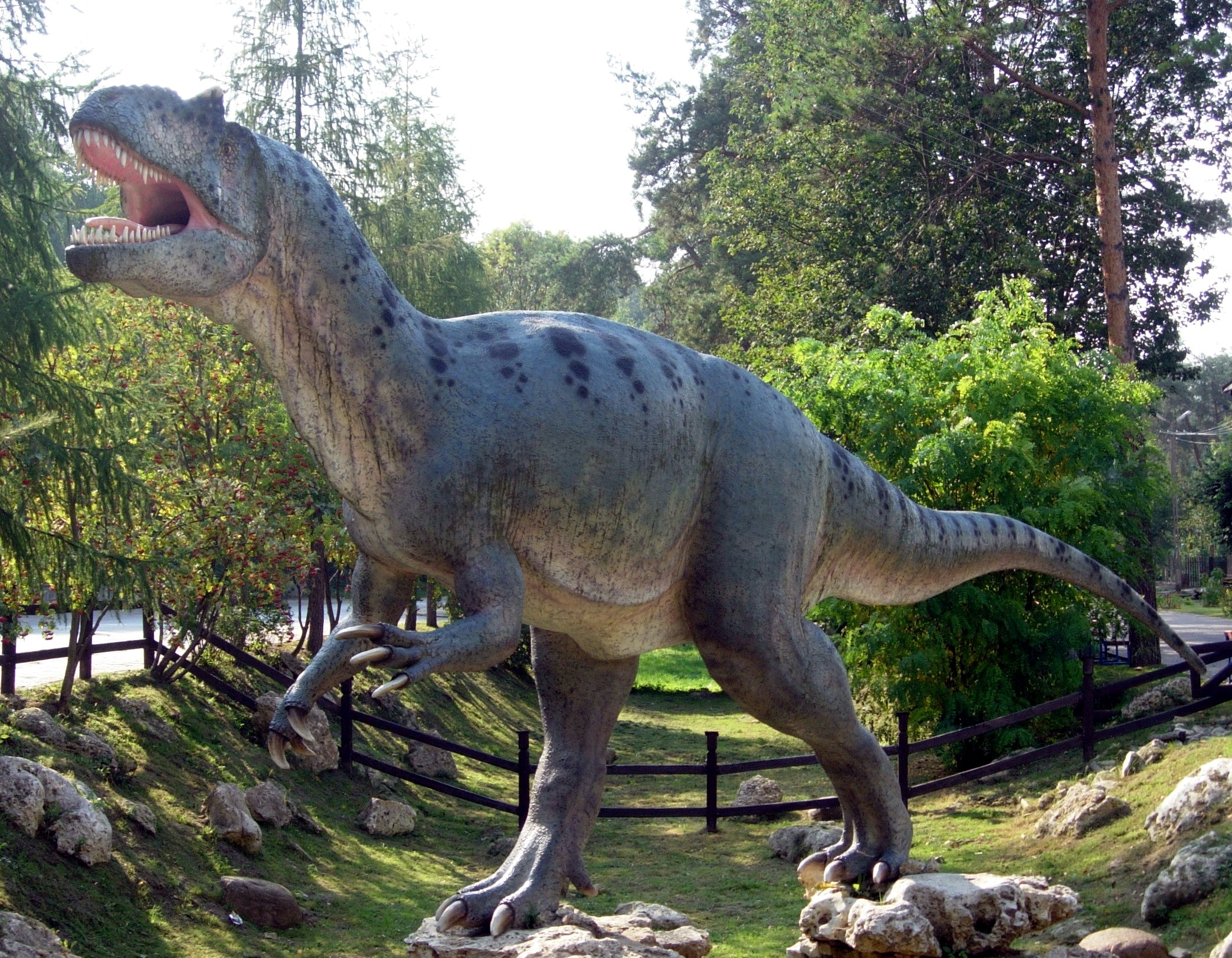 Model of allosaurus in Bałtow, Poland